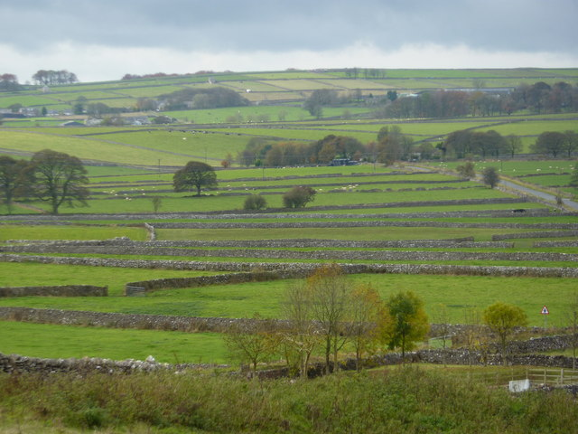 White Peak scenery Looking west from Grindlow. The limestone walls give the appearance of a white landscape